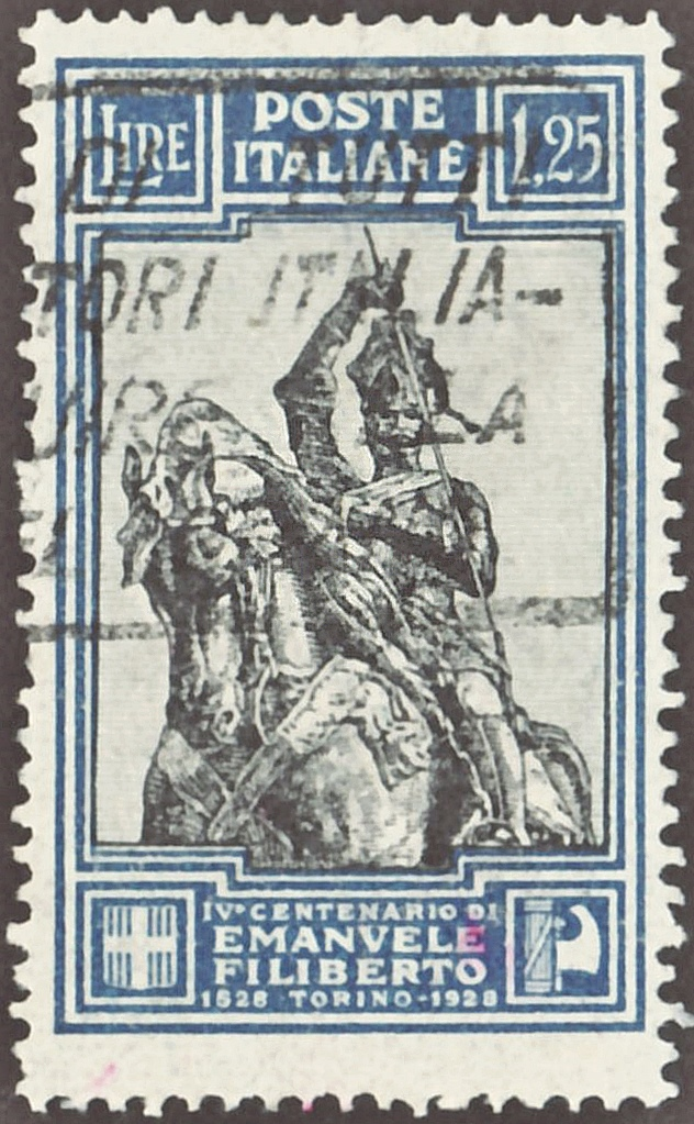 Stamp of the Kingdom of Italy; 1928; commemorative stamp of the issue to the "400th anniversary of Emmanuel Philibert, Duke of Savoy (1528-1580)"; drawing of the duke from an equestrian monument in Turin of Emmanuel Philibert, Duke of Savoy during the Battle of Saint-Quentin in 1557; postmarked Stamp: Michel: No. 290B; Yvert & Tellier: No. 219; Scott: No. 209 Color: azure / black Watermark: Italy No. 1 (crown) Nominal value: 1.25 Lire Postage validity: from 27 July 1928 until 31 December 1929 date QS:P,+1928-00-00T00:00:00Z/8,P580,+1928-07-27T00:00:00Z/11,P582,+1929-12-31T00:00:00Z/11 Stamp picture size (printed area): 22.0 x 36.0 mm